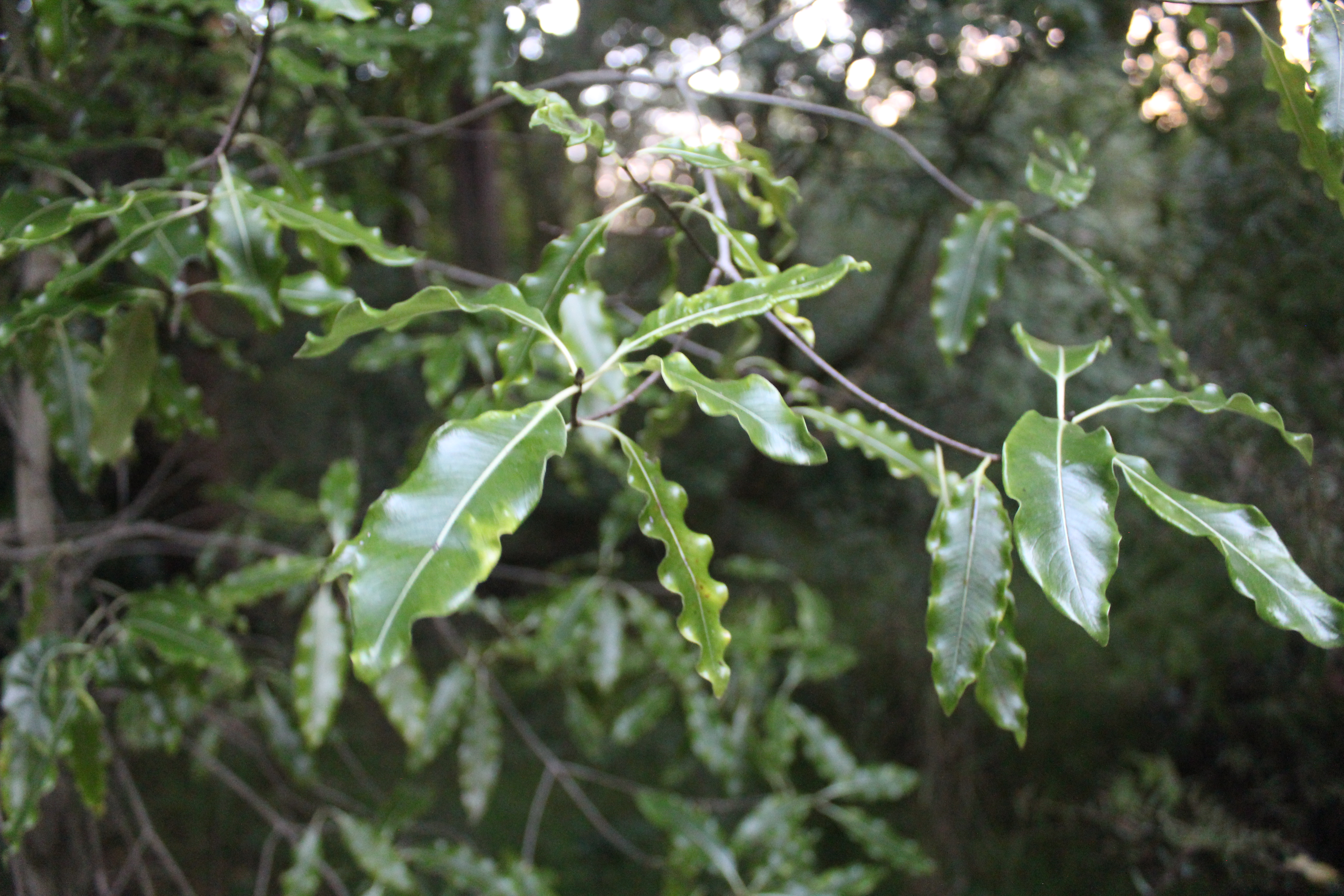 Leaves of the Pittosporum eugenioides (Lemonwood, Tarata) tree, endemic to New Zealand. Photographed in Greytown, New Zealand.